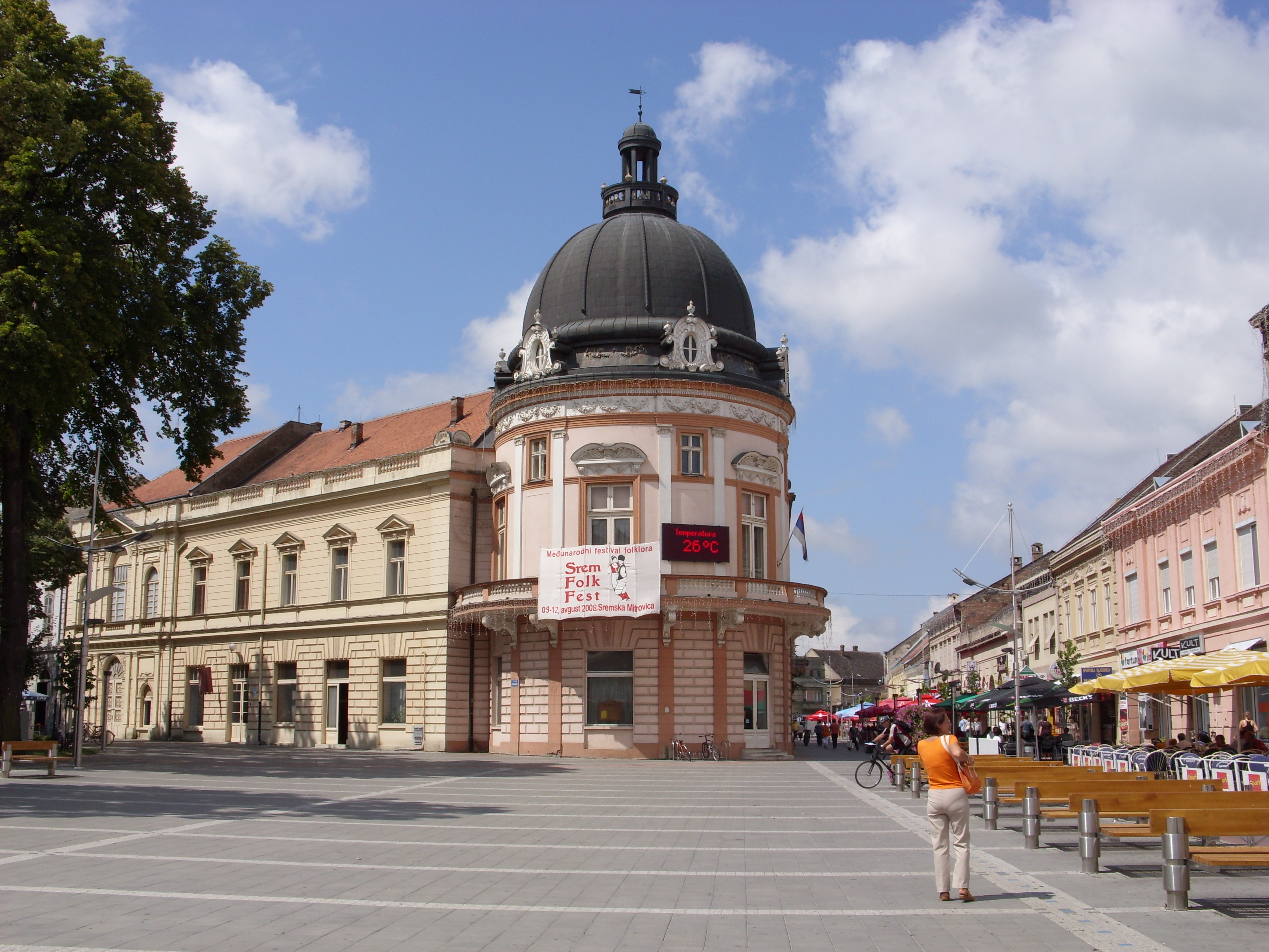 City centre of Sremska Mitrovica in Serbia.